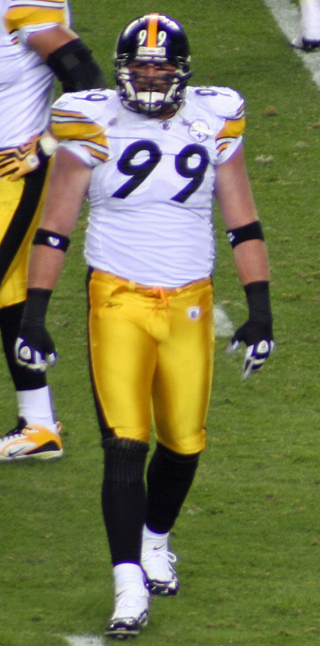 Brett Keisel, a player with the Pittsburgh Steelers American football team.